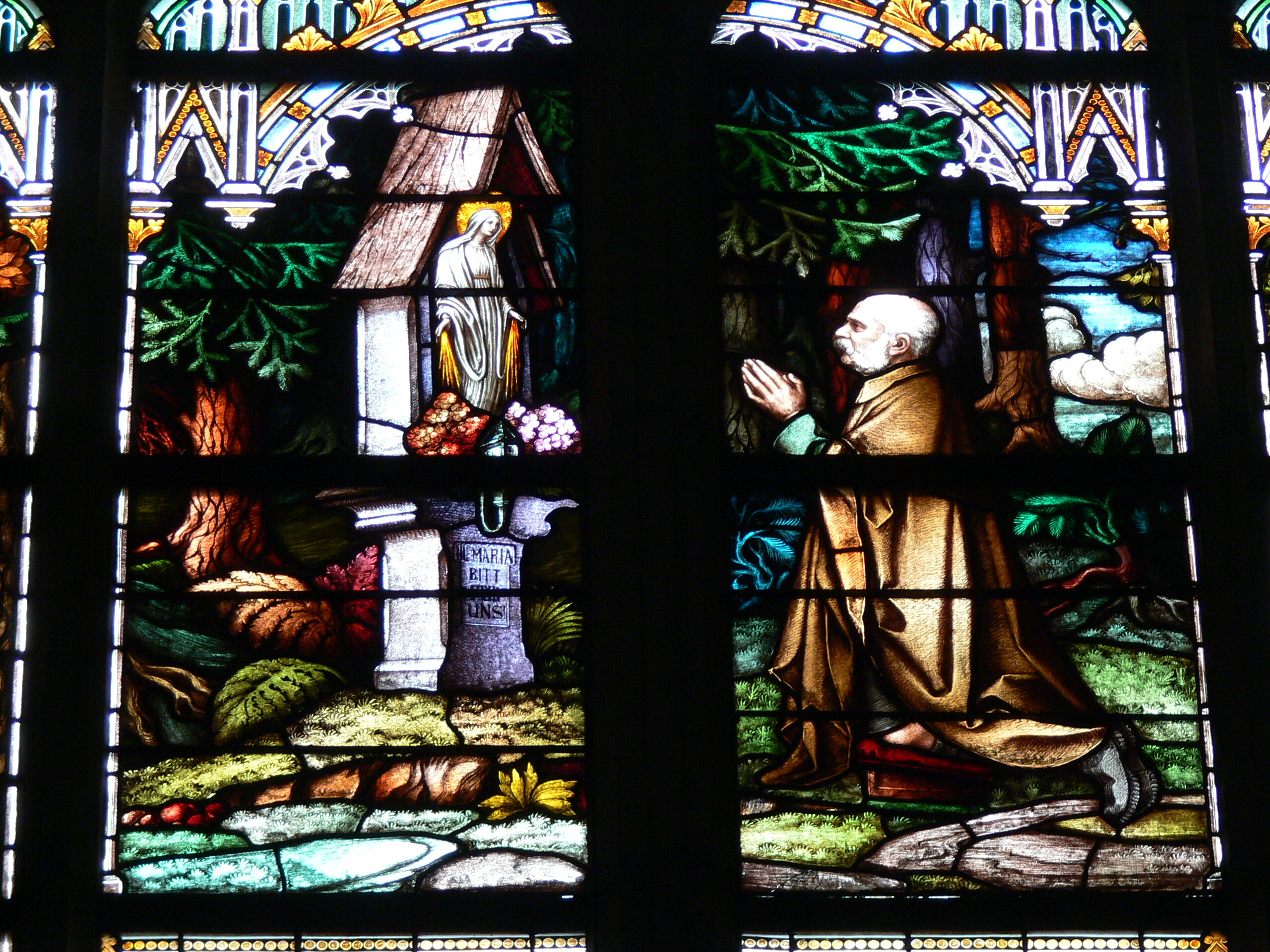 Linz Cathedral ( Upper Austria ). Gothic revival stained glass window ( so called "imperial window") showing emperor Franz Joseph of Austria praying in front of a madonna.